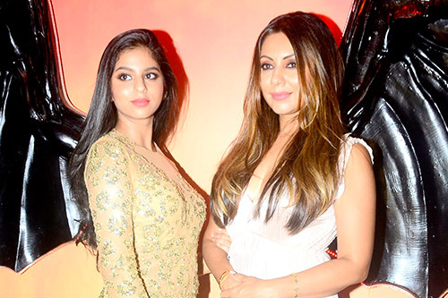 Suhana Khan & Gauri Khan graces Gaur Khan’s Halloween bash for Cirqu Le Soir, Oct 28, 2017